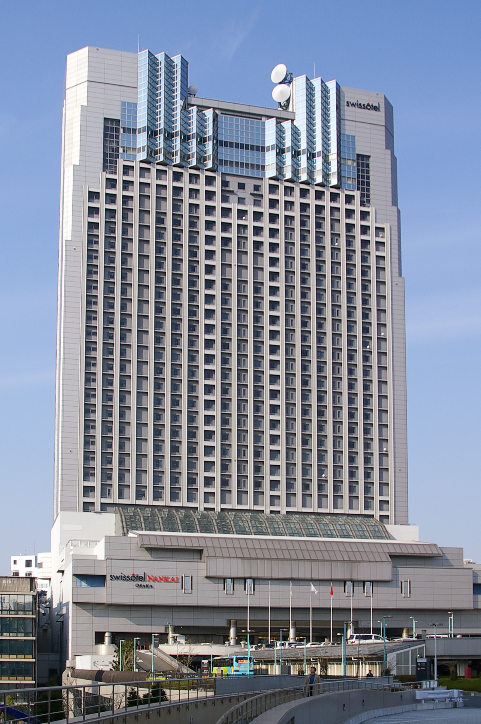 Photograph of Swissôtel Nankai Osaka in Chuo-ku, Osaka, Osaka Prefecture, Japan.